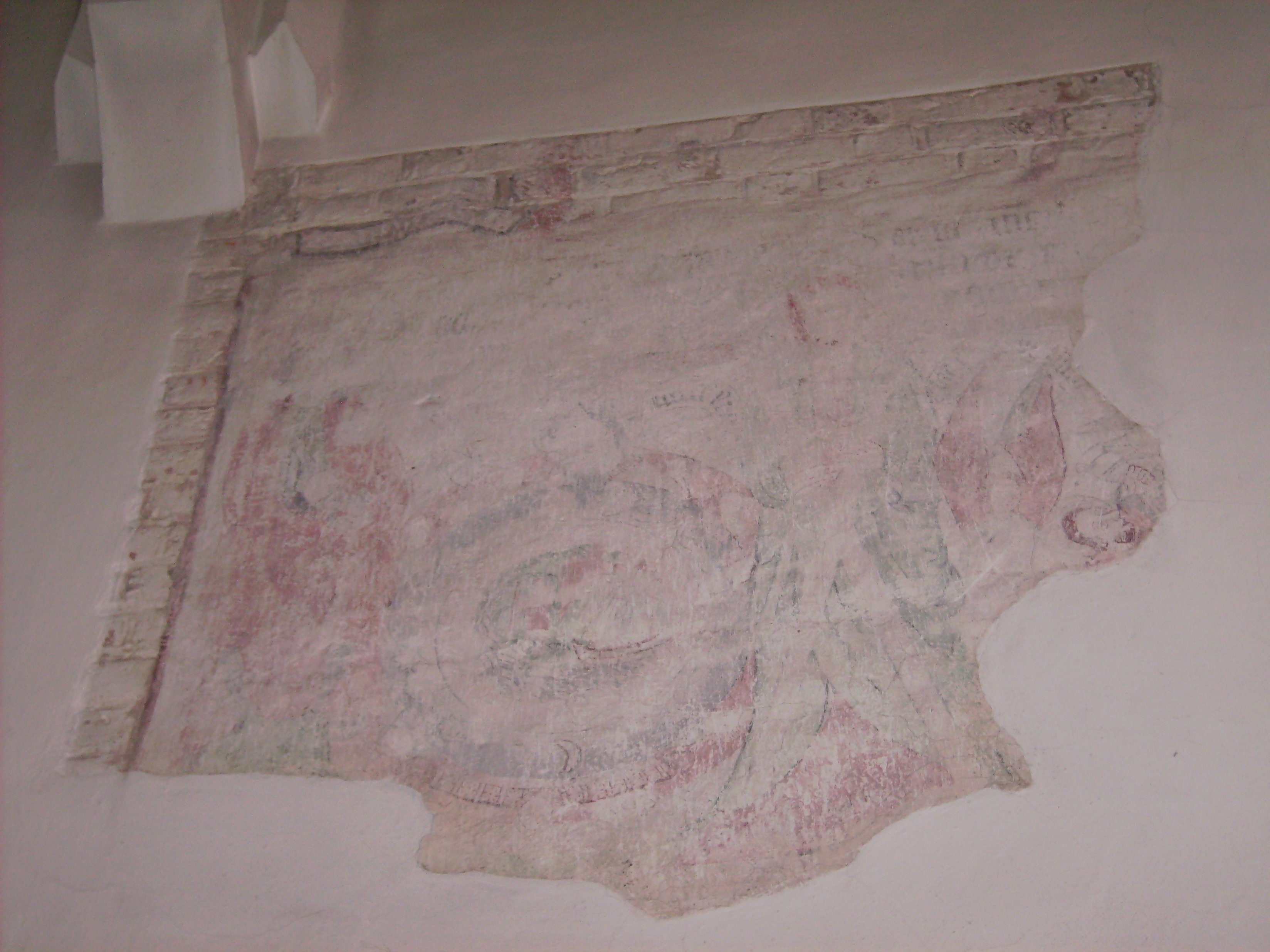 The Middle Age church ”Vårfrukyrkan” in Skänninge, built around 1300 by the German population in the town, the Swedish population had a different church, but after the Reformation this is the only church left in the town, churches and monasteries destroyed by the Swedish king Gustaf Vasa around 1550, when he need stones to his new castle in Vadstena.